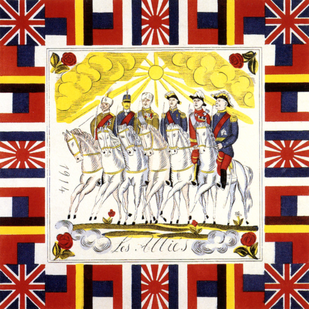 Les Alliés. Printed handkerchief designed by Raoul Dufy, published by Bianchini Férier and sold by Charvet in 1915. The pattern was printed by Bianchini Férier under reference n° 51412 and registered on May 15, 1915. Raoul Dufy transferred all his copyrights to Bianchini Férier by contract (Anne Toulonnas et Jack Vidal, Raoul Dufy : l'oeuvre en soie, Barthélémy, 1998, p. 41-42 ; see also Inventaire général du patrimoine culturel). Reproduced in Raoul Dufy, du motif à la couleur, Musée Malraux, Le Havre, 1993, p. 93 .